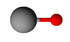 Titanium(II) oxide (TiO) made using ChemSketch.